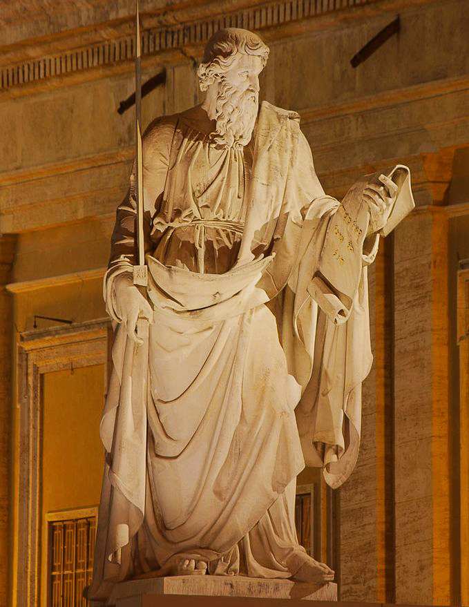 Paulus on Piazza San Pietro at night.jpg